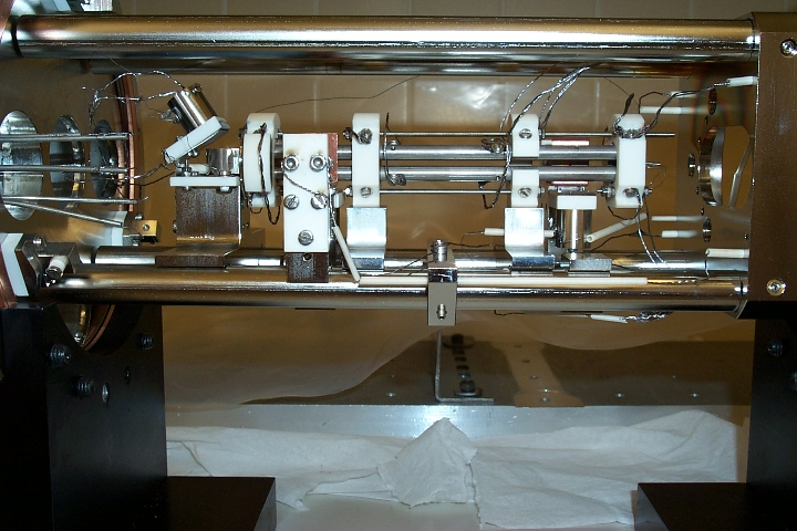 Linear quadrupole ion trap from Dr. Thompson's laboratory at the University of Calgary. Picture taken during maintenance.